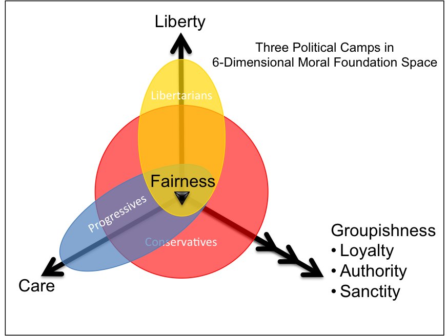 Notional clustering of the three main political camps according to the six Moral Foundations